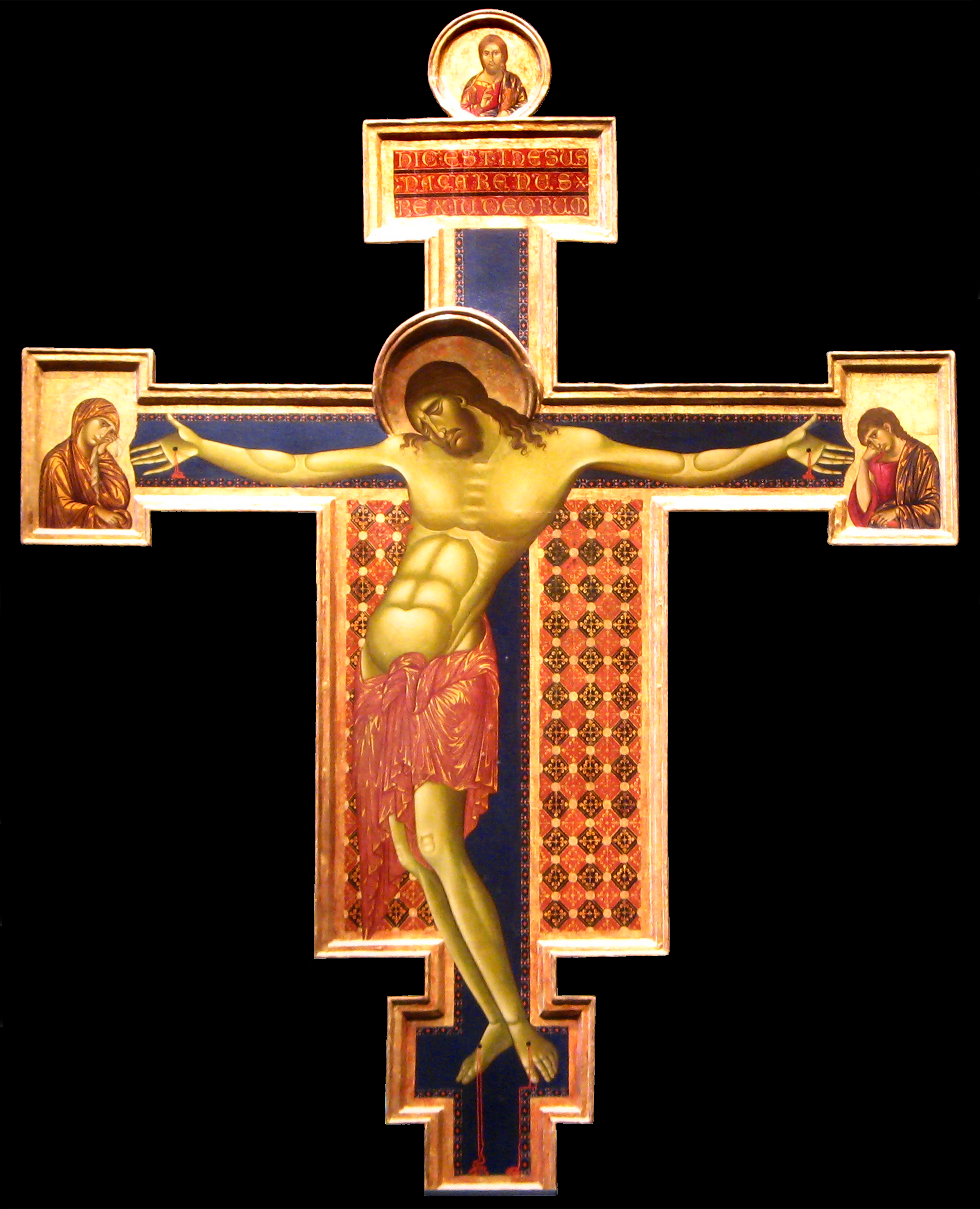 CrocifissoCimabue-Arezzo-Photo taken by Senet. April 20, 2010-Perspective correction, crop and blackframe with GIMP by Paolo Villa 2019 - This file was derived from: CrocifissoCimabue-Arezzo.JPG - Il crocifisso di Cimabue (1268-1271), restaurato, conservato nella chiesa di San Domenico ad Arezzo.